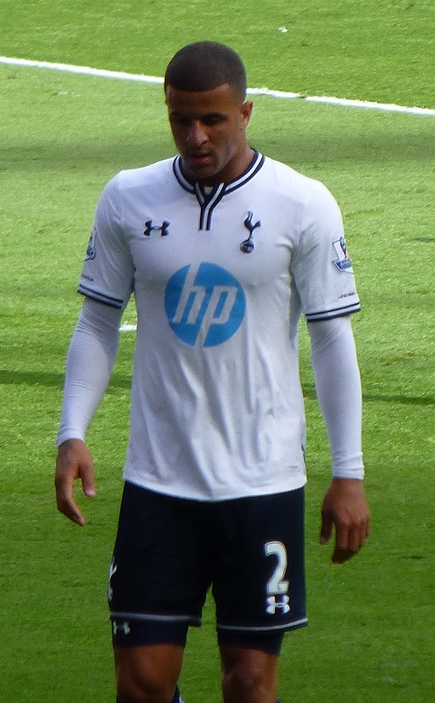 Kyle Walker playing for Tottenham Hotspur against Arsenal at the Emirates Stadium, Holloway on 1 September 2013